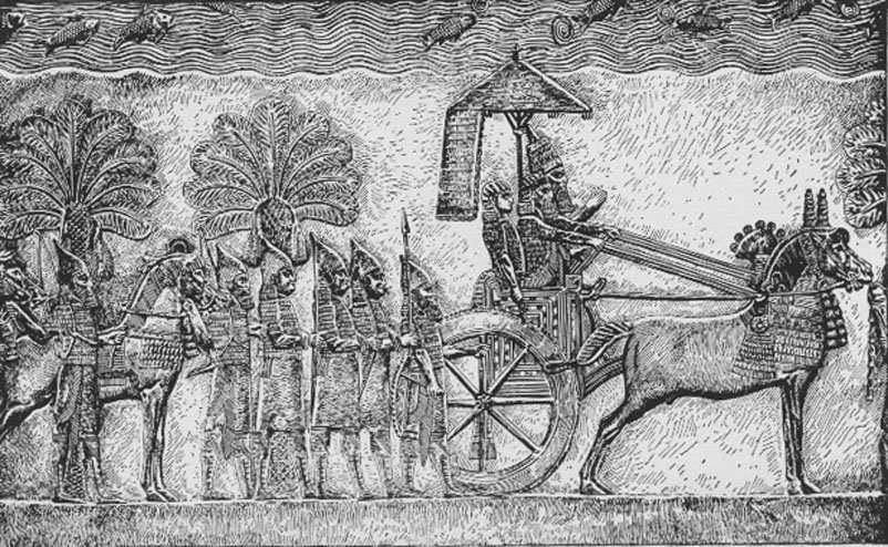 King Sennacherib of Assyria from